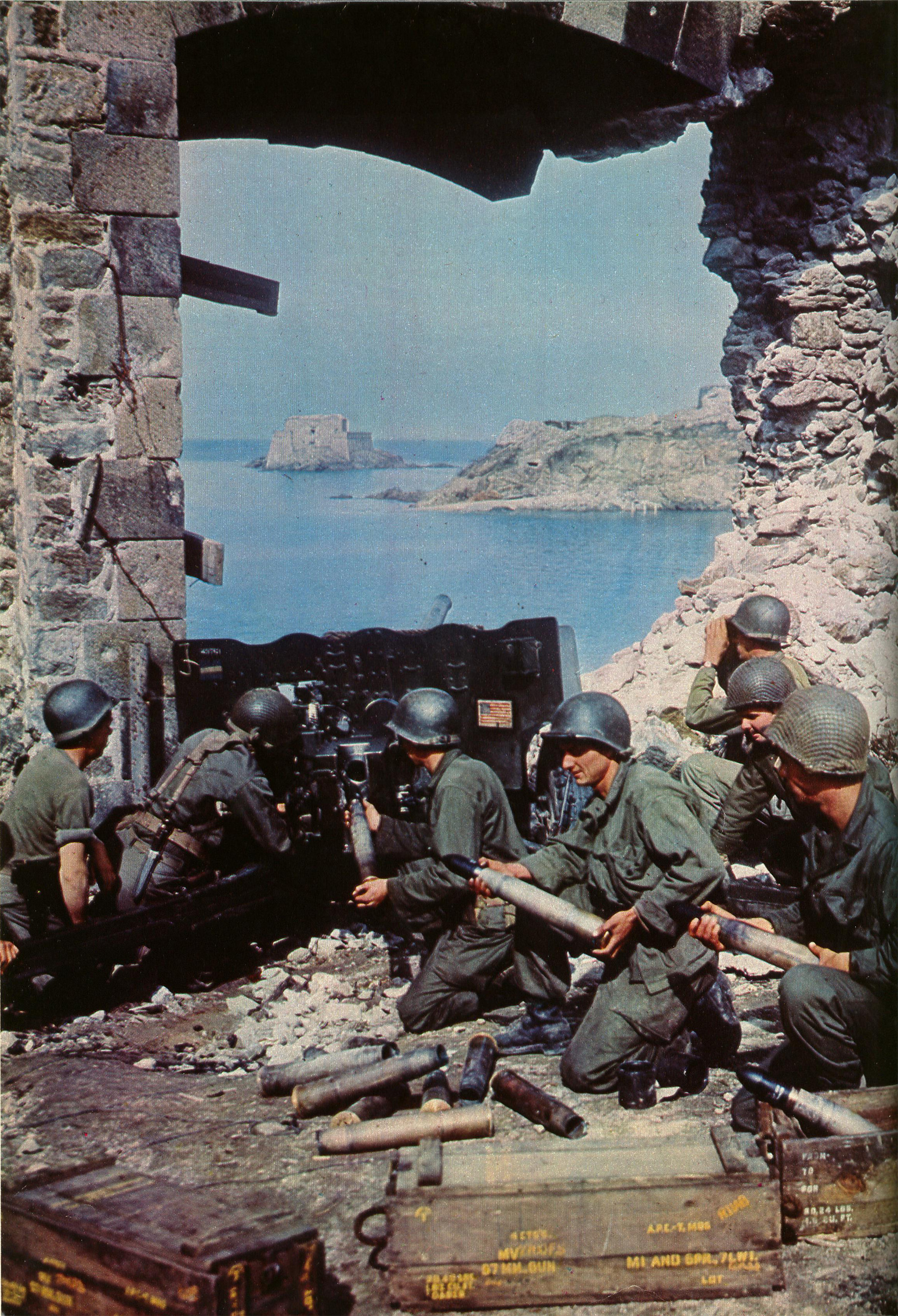 A U.S. 57 mm M1 gun firing from Champs-Vauverts gate in Saint-Malo intramuros, in Bretagne in August 1944. It seems to be a reconstructed scene for the movie needs of John Ford who followed Patton's army